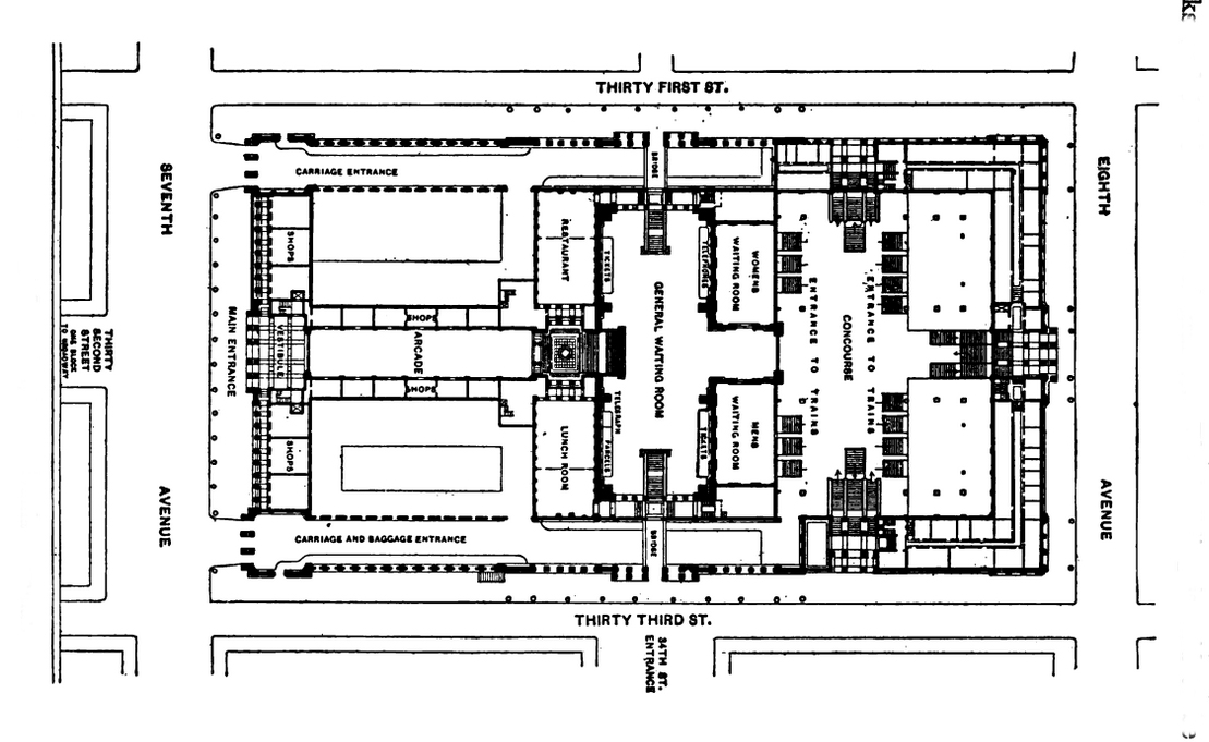 Pennsylvania Station (Pennsylvania Terminal), New York City, original floor plan